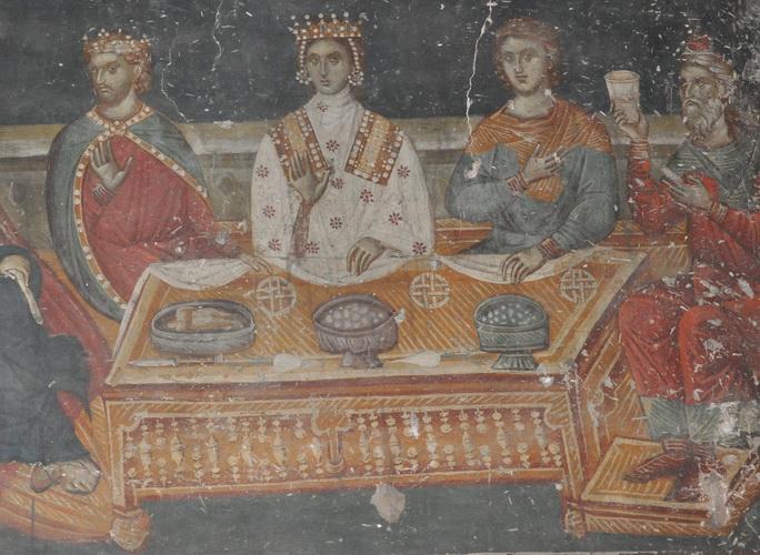 Marriage in Cana - Fresco from Saint Nicholas the Orphan Church in Thessaloniki